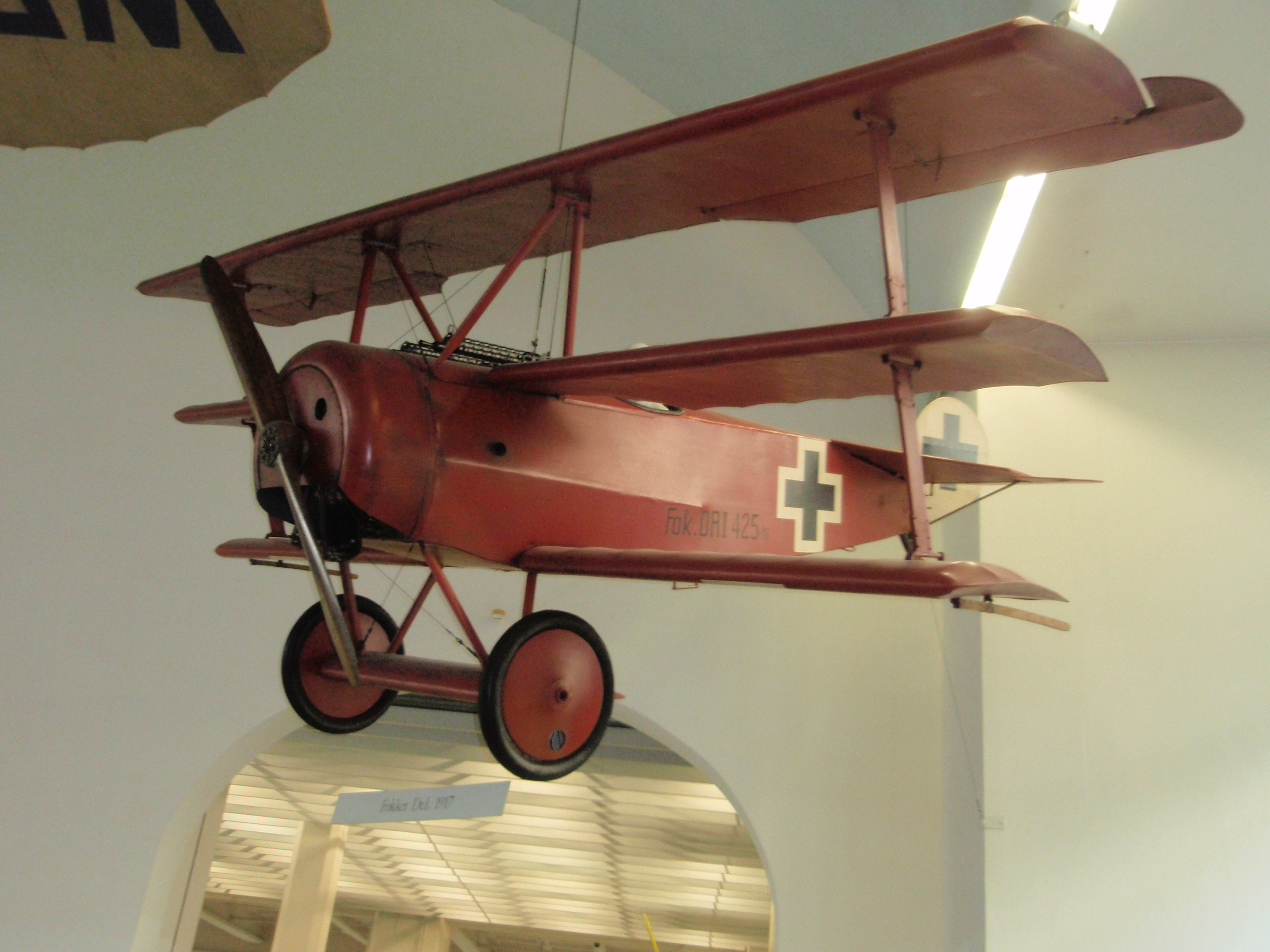 Fokker Dr.I, Deutsches Museum